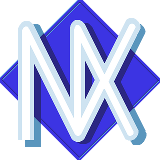 This is the nuttx logo